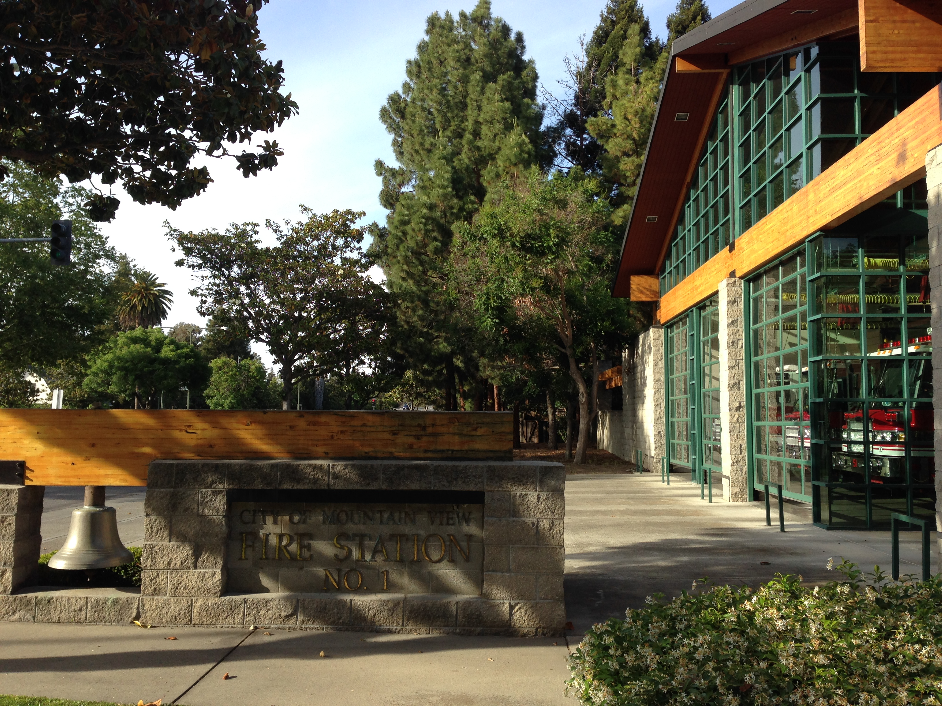 City of Mountain View, California